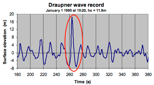 The graphic, modified from a Sverre Haver's paper figure, highlights the Draupner wave peak